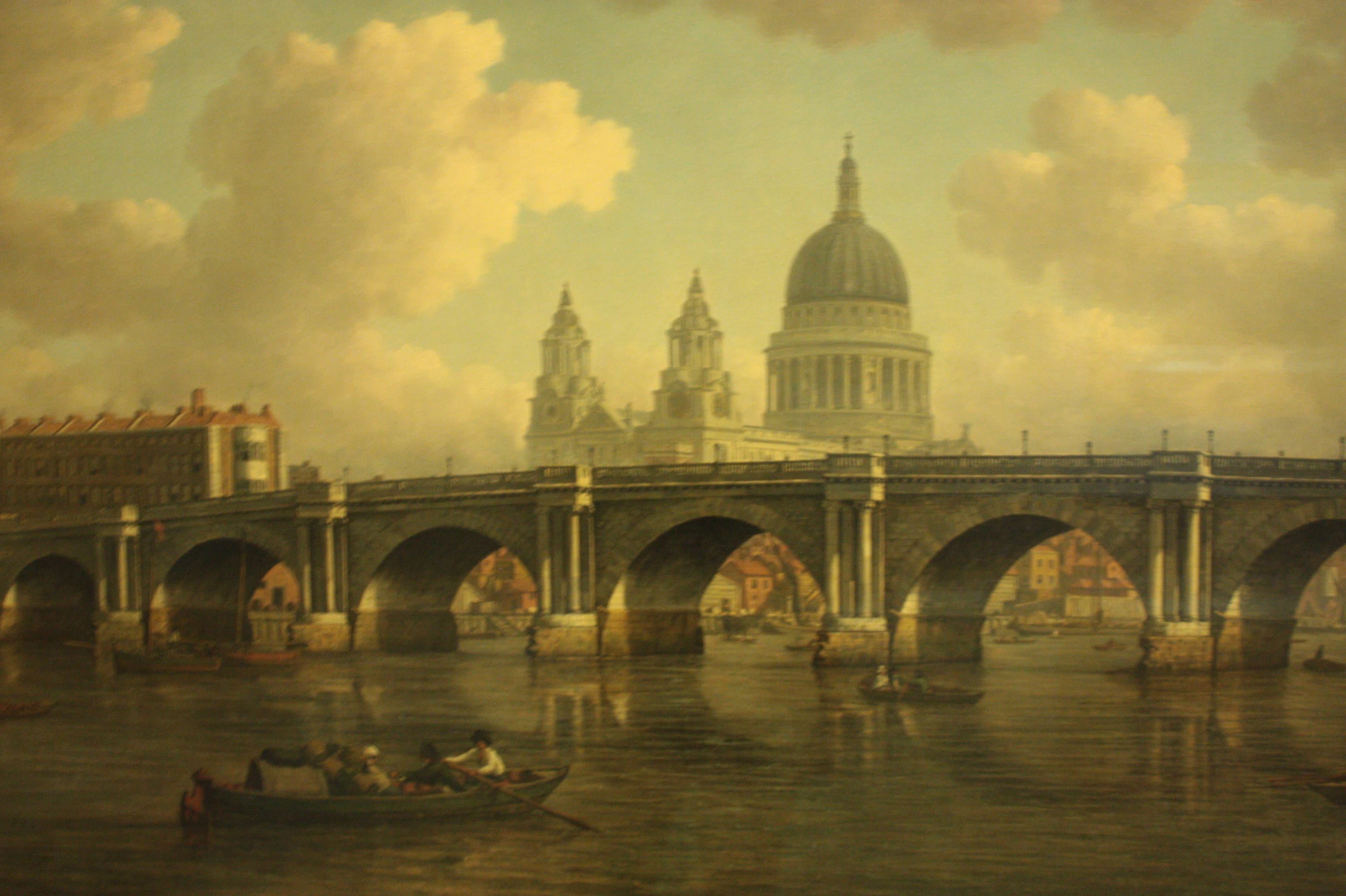 Blackfriars Bridge and St Pauls Cathedral, by William Marlow, 1788